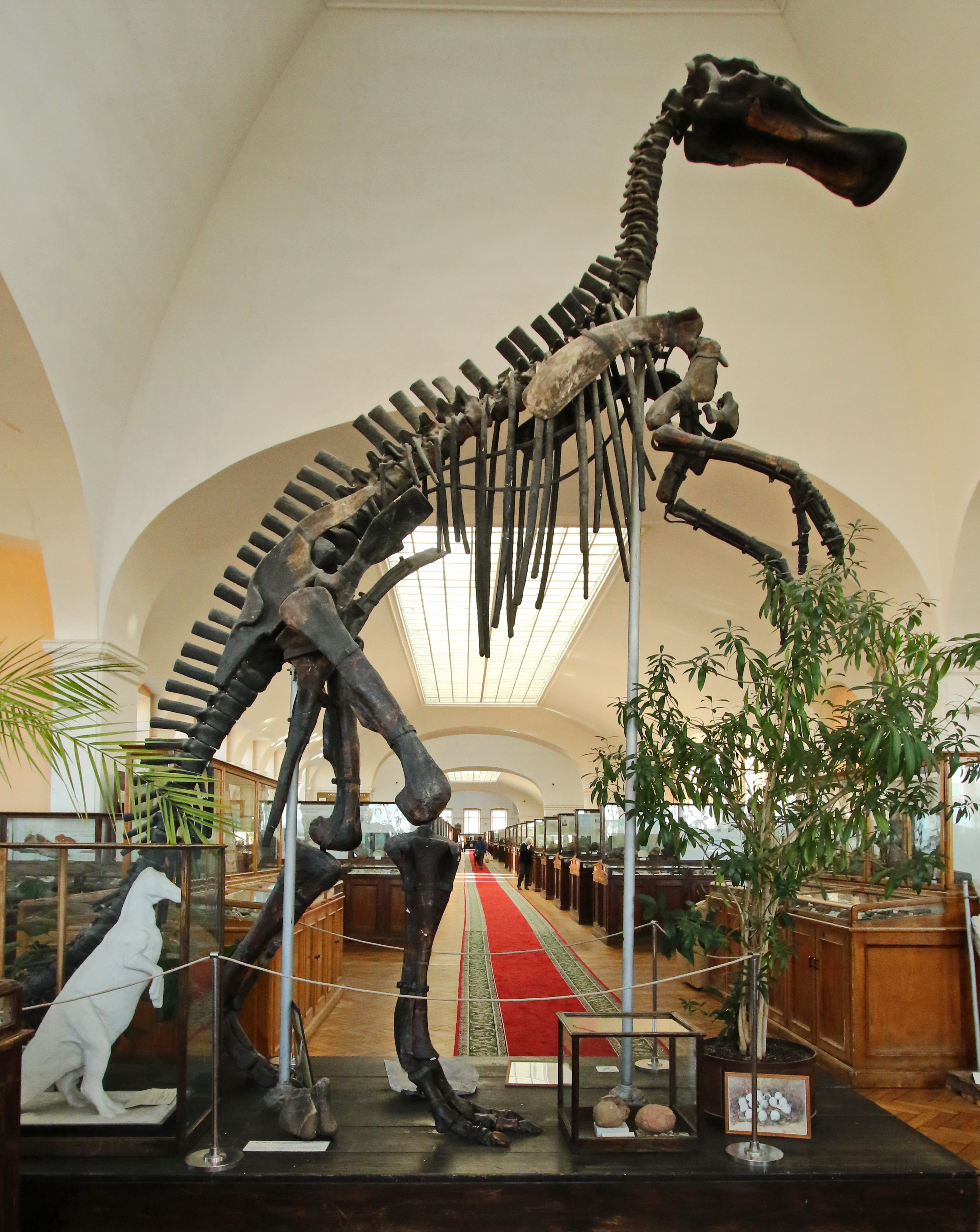 The restored duck-billed dinosaur skeleton. Mandschurosaurus Amurensis. Exhibit VSEGEI Museum in St. Petersburg.